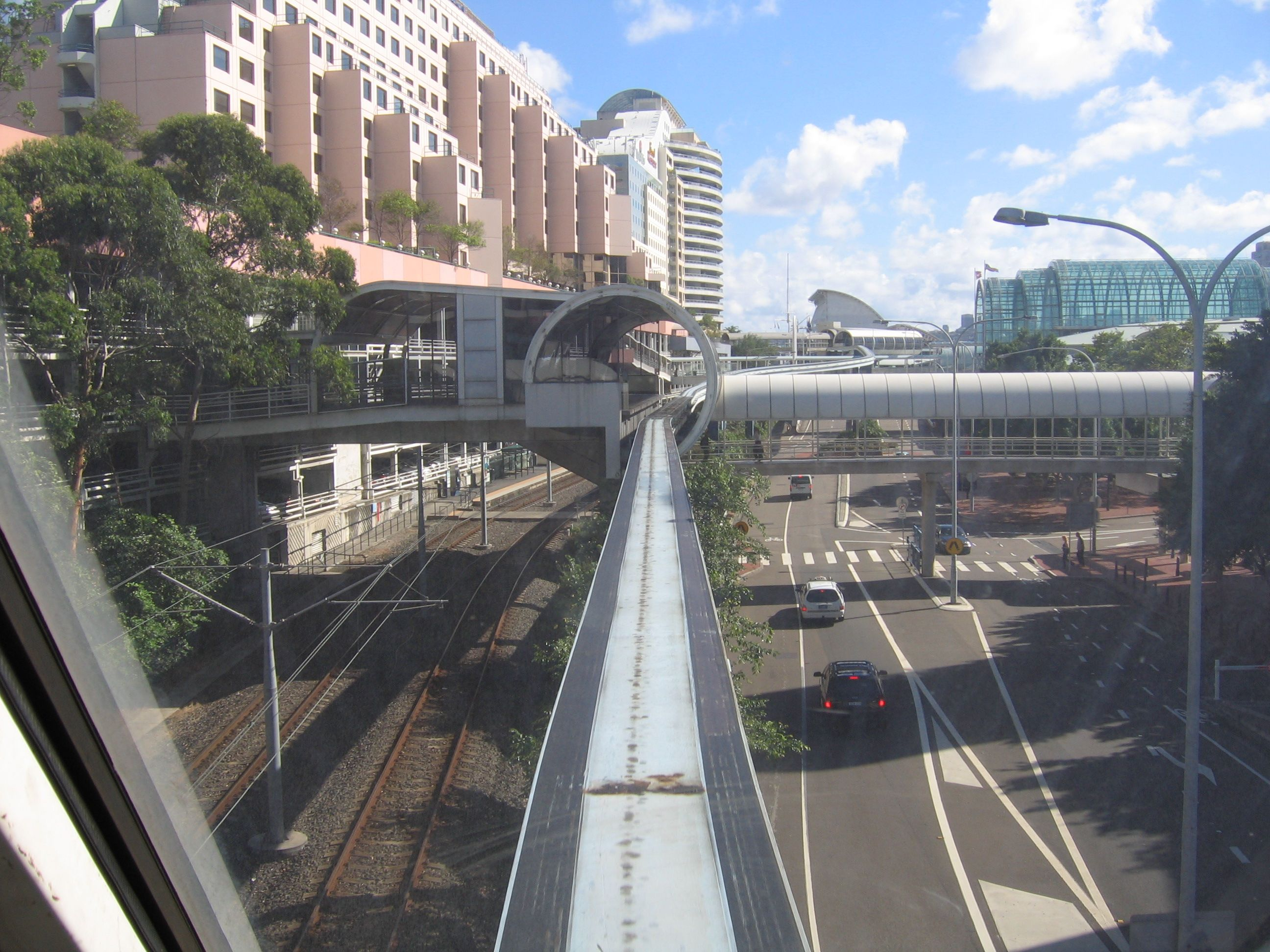 Sydney Monorail: Stations Darling Harbor (background), Convenrtion Center (foreground and rails of Metro Light Rail (down left)